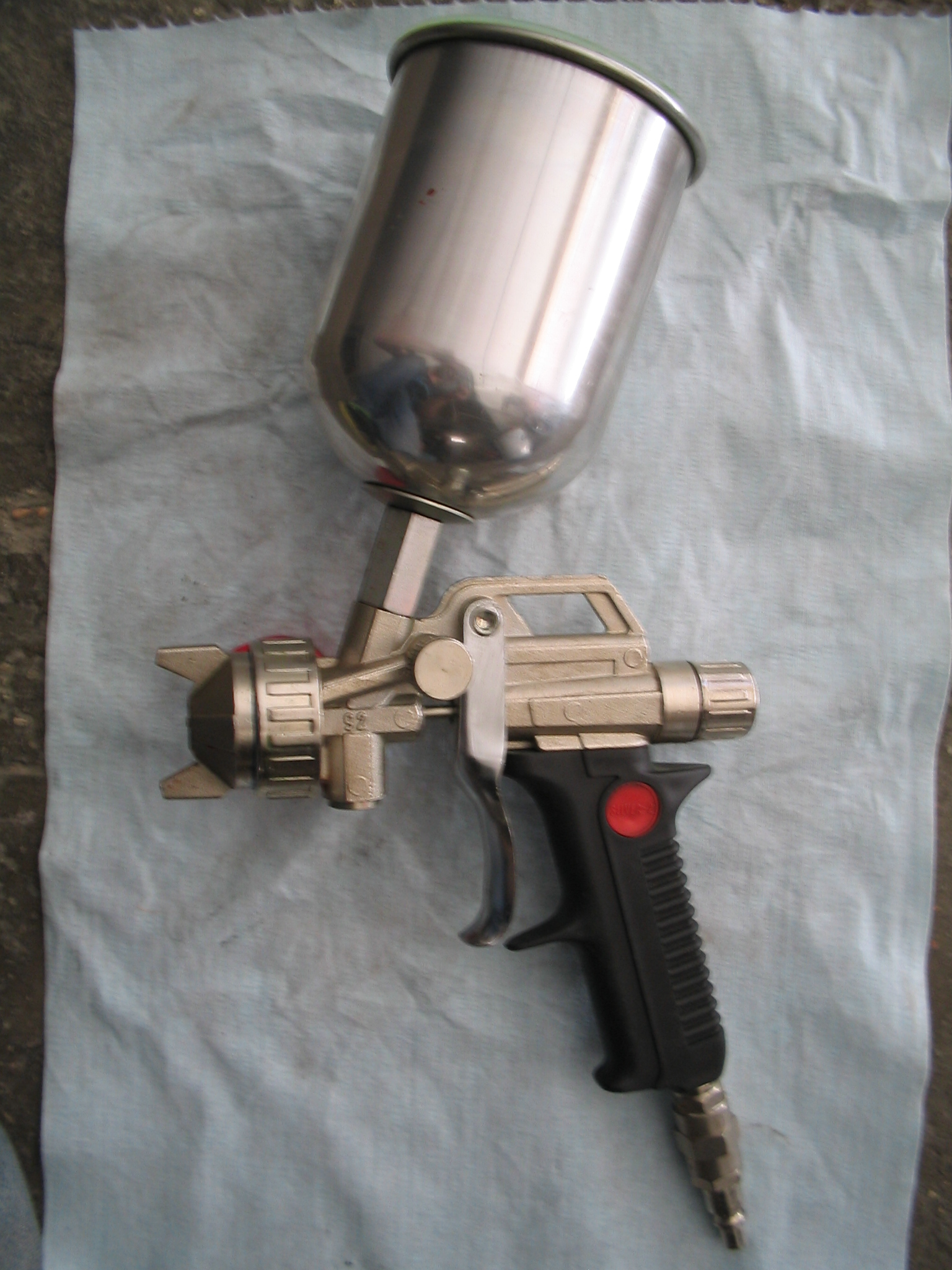 airbrush gun with a tank top and double adjustable